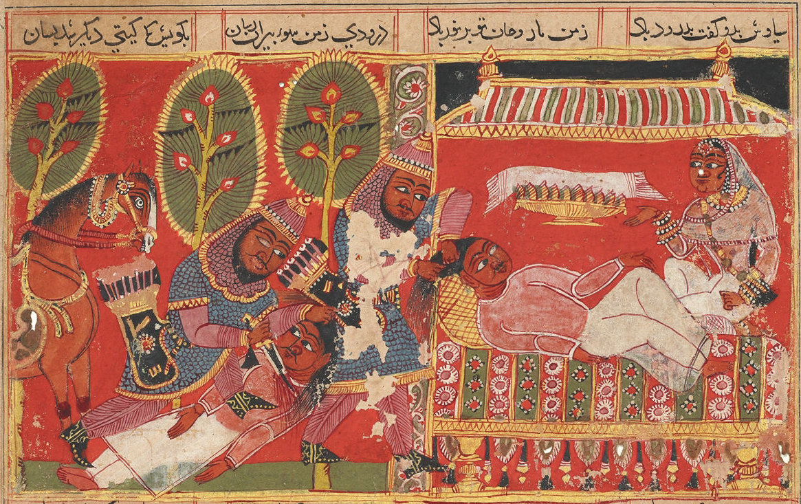 Siyavash is Pulled from His Bed and Killed Shahnama, Sultanate of Delhi, 1450 Master of the Jainesque Shahnama. Date: ca. 1425–50 Culture: India, possibly Malwa. Medium: Ink and opaque watercolor on paper. Dimensions: Page: 12 3/8 x 9 5/8 in. (31.5 x 24.5 cm) Image: 4 5/16 x 7 13/16 in. (11 x 19.8 cm)